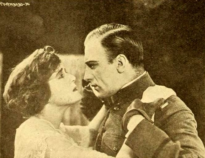 Still from the American film The Amazing Wife (1919) with Mary MacLaren and Frank Mayo, on page 1472 of the March 15, 1919 Moving Picture World.